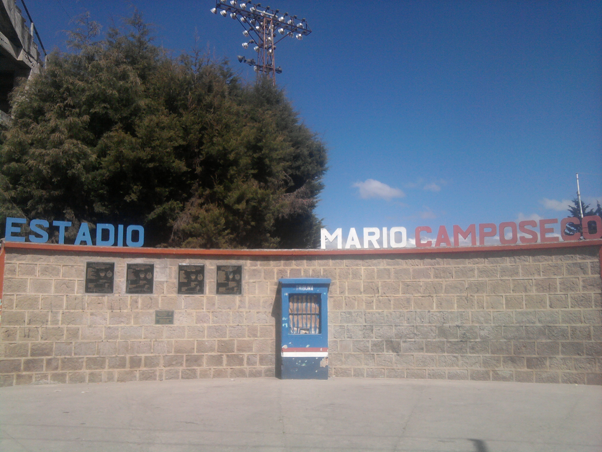 Stadium Mario camposeco